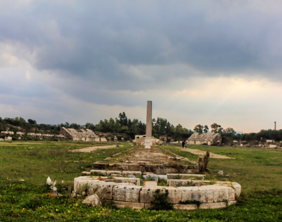 Hippodrome of Tyre: Turniñ post and median strip with obelisk